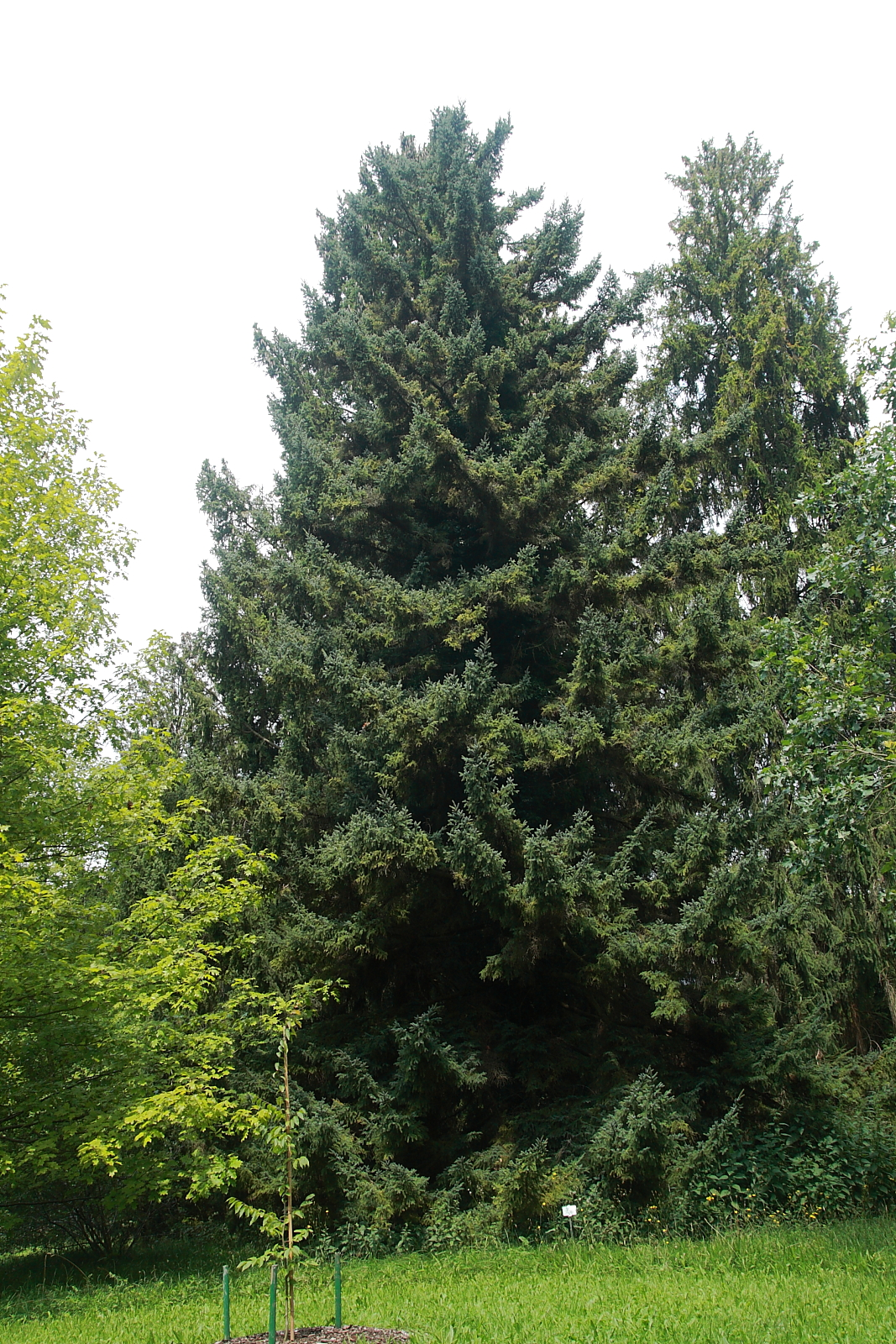 Glehn's spruce (Picea glehnii) in Munich Botanical Garden.